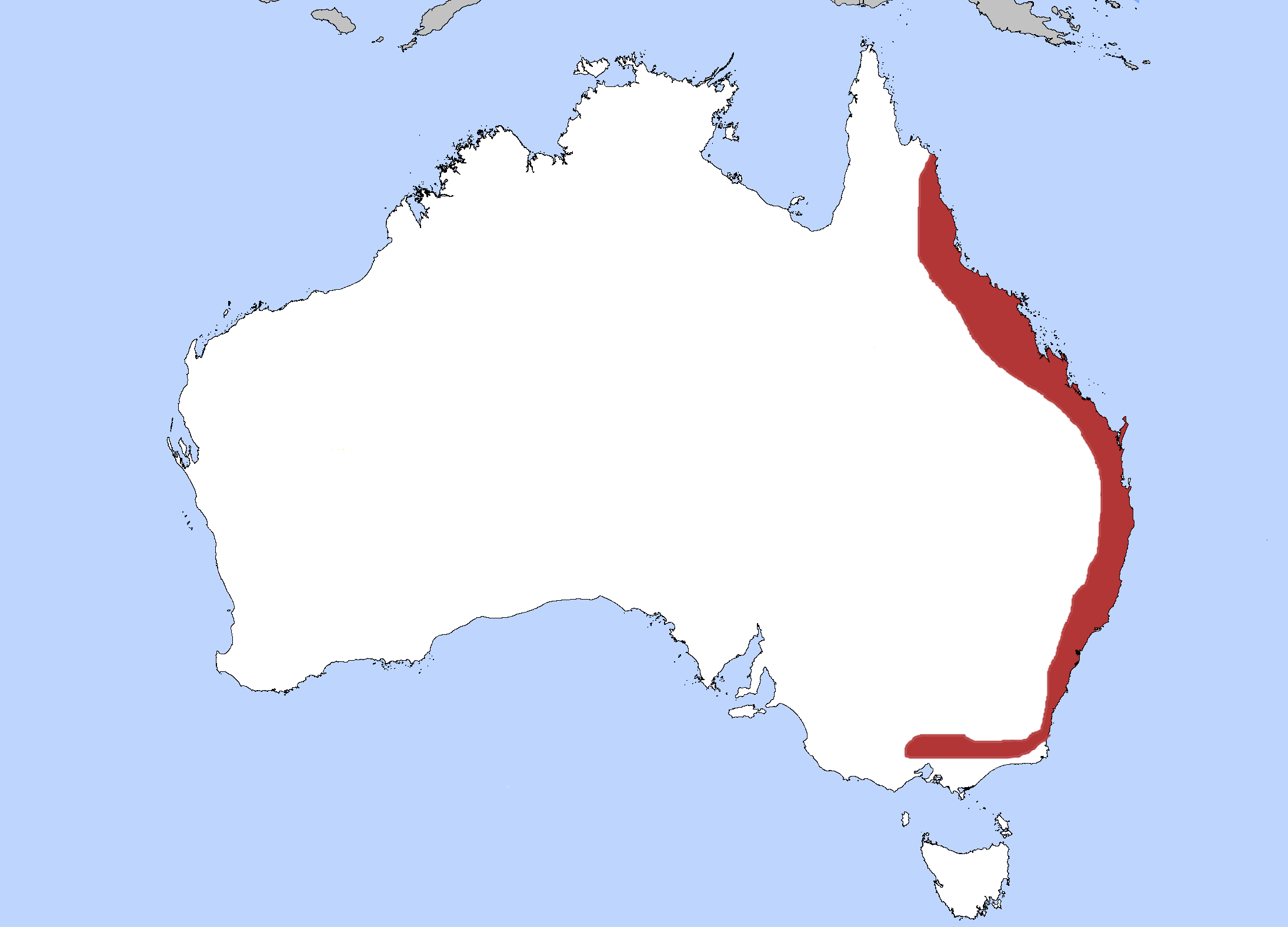 Columba leucomela White-headed Pigeon distribution.